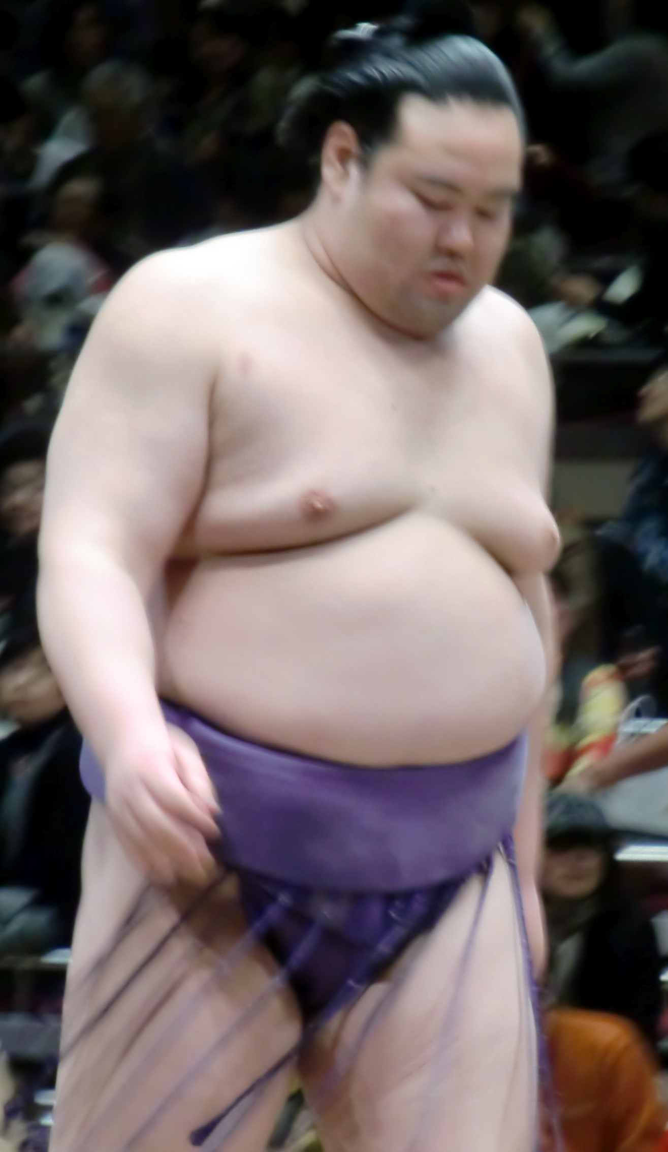 taken at 2010 Jan tournament